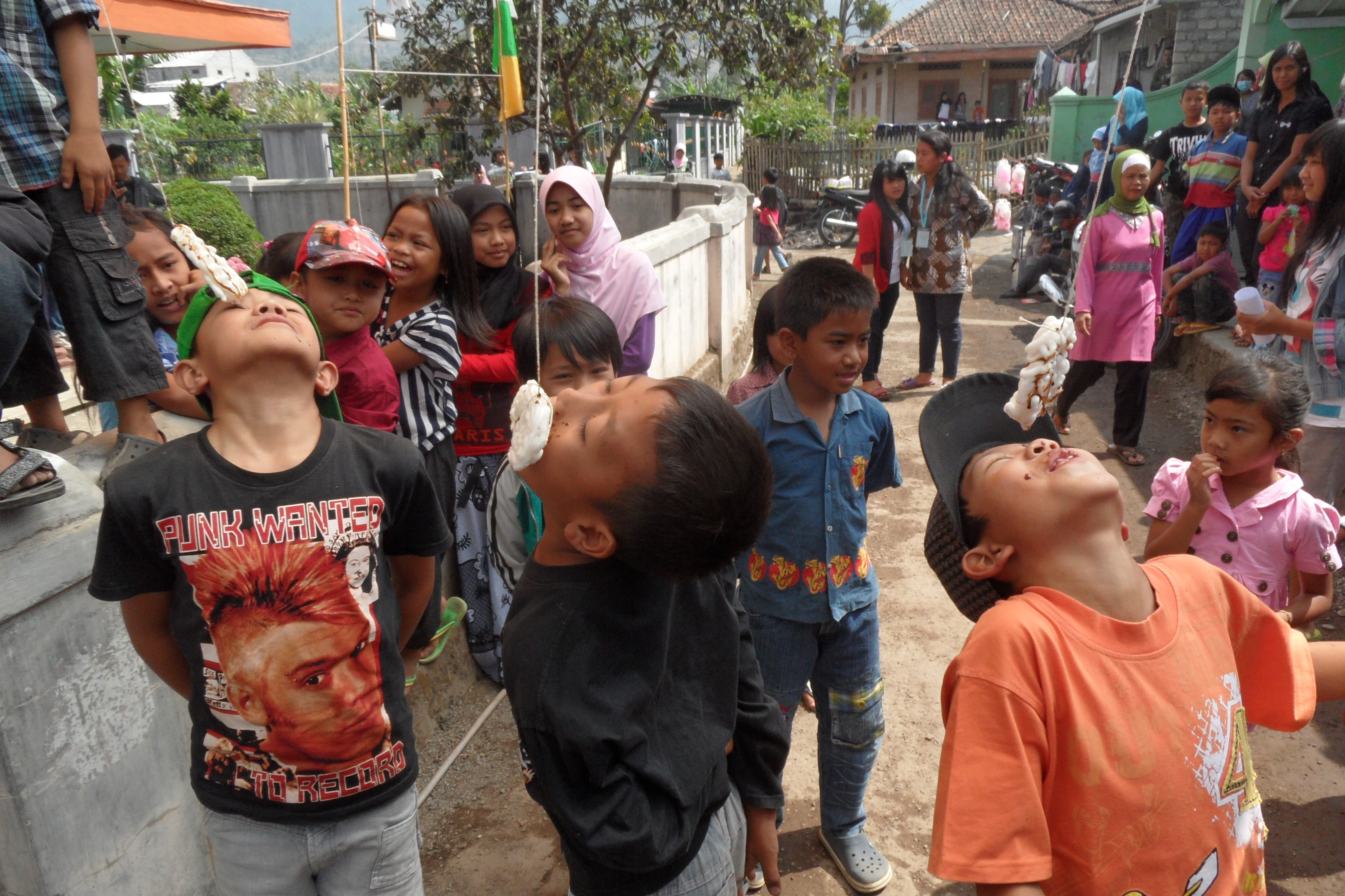 Krupuk speed-eating contest celebrating Indonesian Independence Day